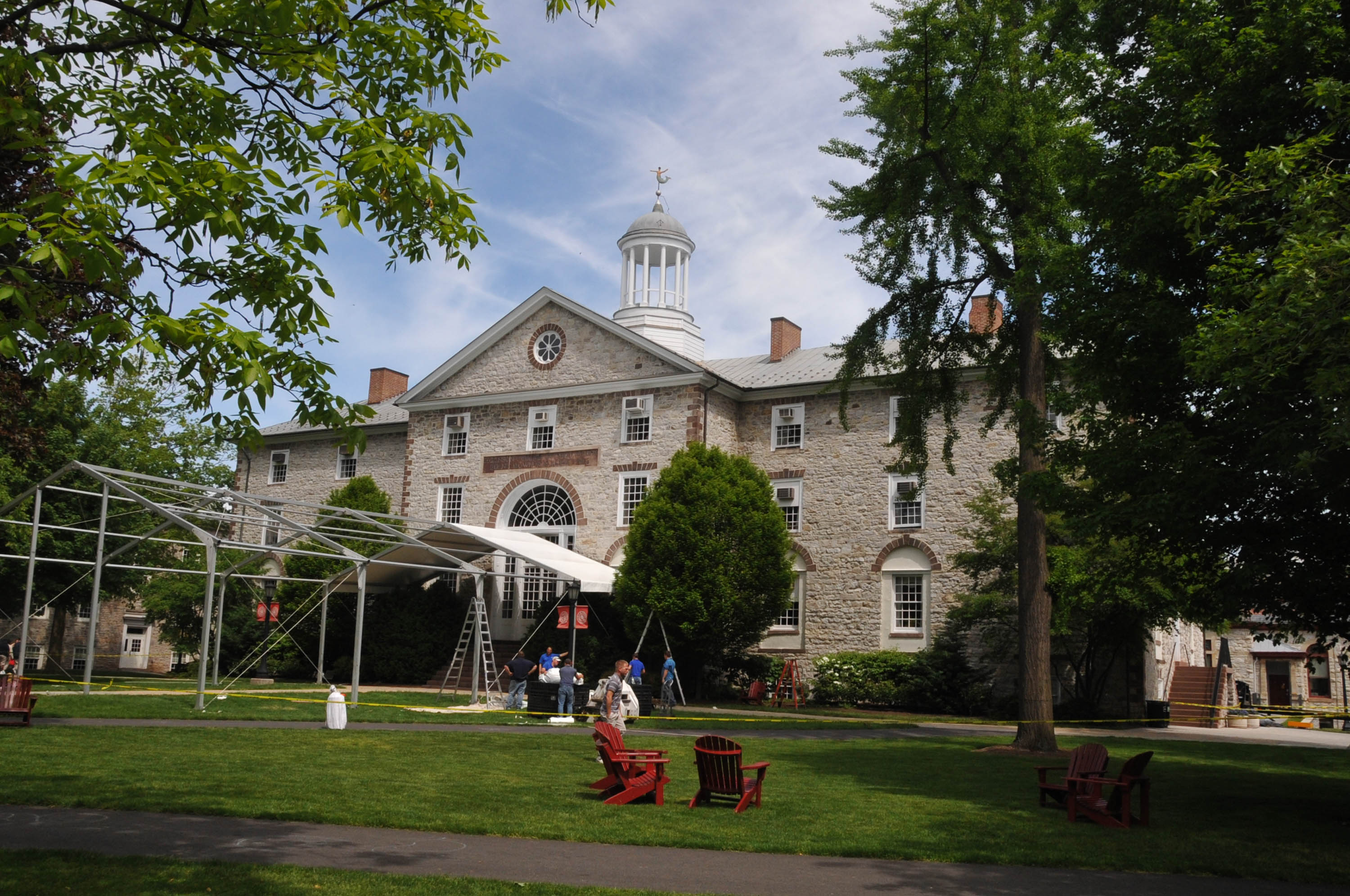 HEART OF THE DICKINSON CAMPUS AND OLDEST BUILDING – NOW A NATIONAL HISTORIC LANDMARK; BEGUN IN 1798 AND DESIGNED BY BENJAMIN LATROBE